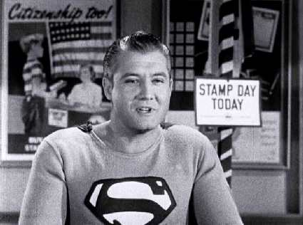 Screen capture of actor George Reeves as Superman in the U.S. government film "Stamp Day for Superman"